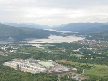 View westwards across the aluminium works, Inverlochy, Corpach and Loch Eil - cropped from Geograph photo 904685